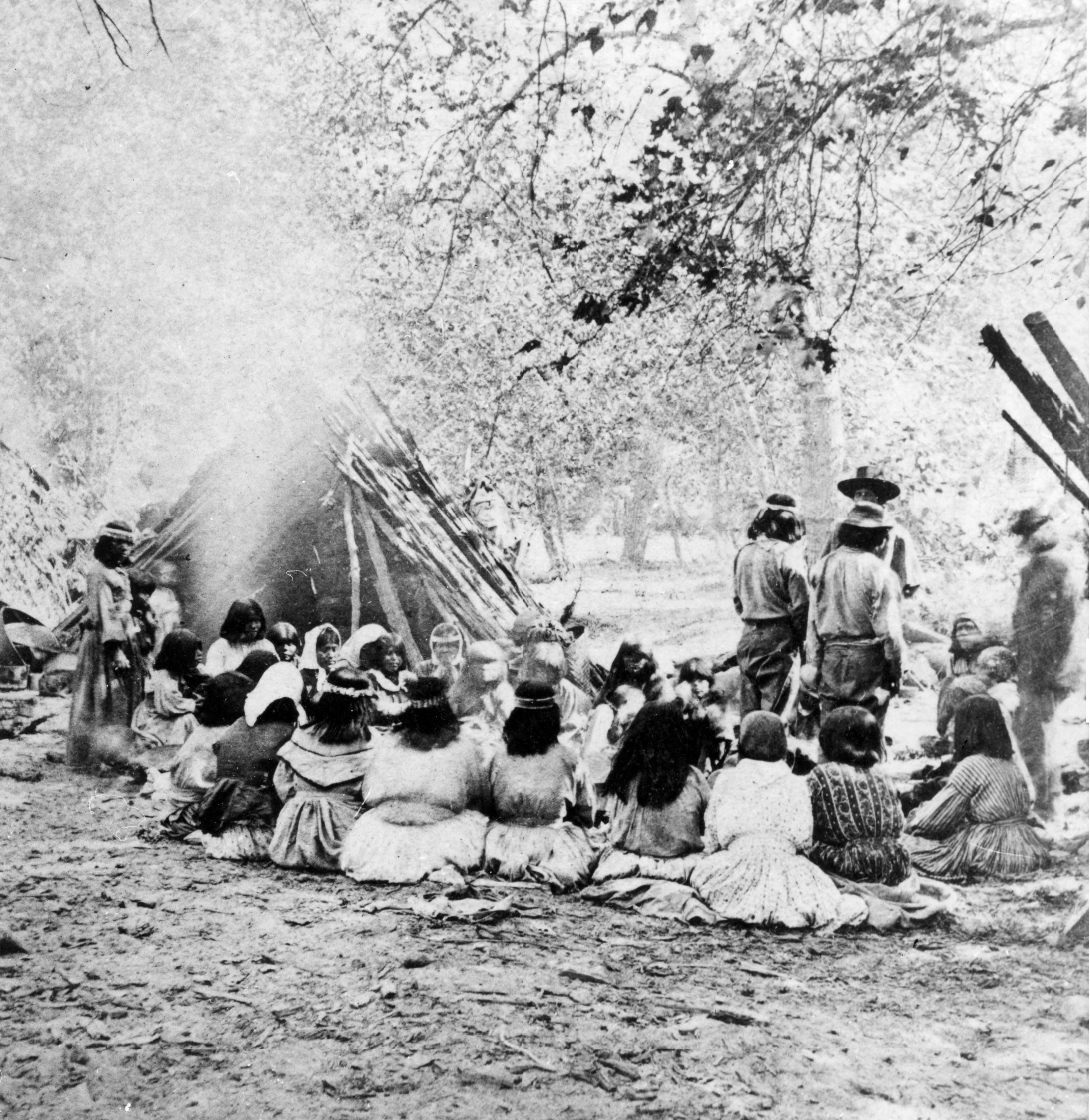 Group of Miwok in council by Cedar bark structure in Yosemite Valley near the Merced River. Picture stitched from screenshots from the original for optimal quality.